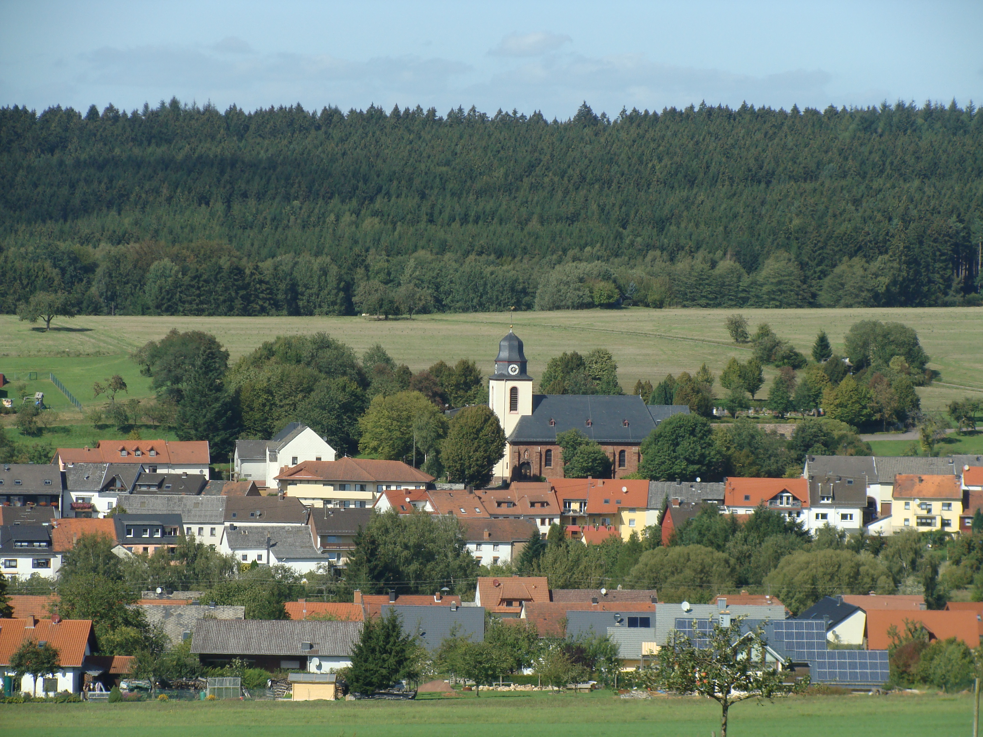 Greimerath, Trier-Saarburg, Rhineland-Palatinate, Germany